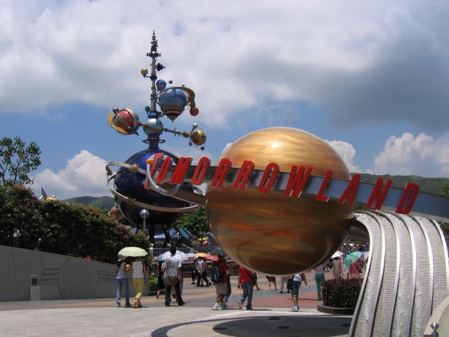 Tomorrowland and Orbitron of Hong Kong Disneyland.